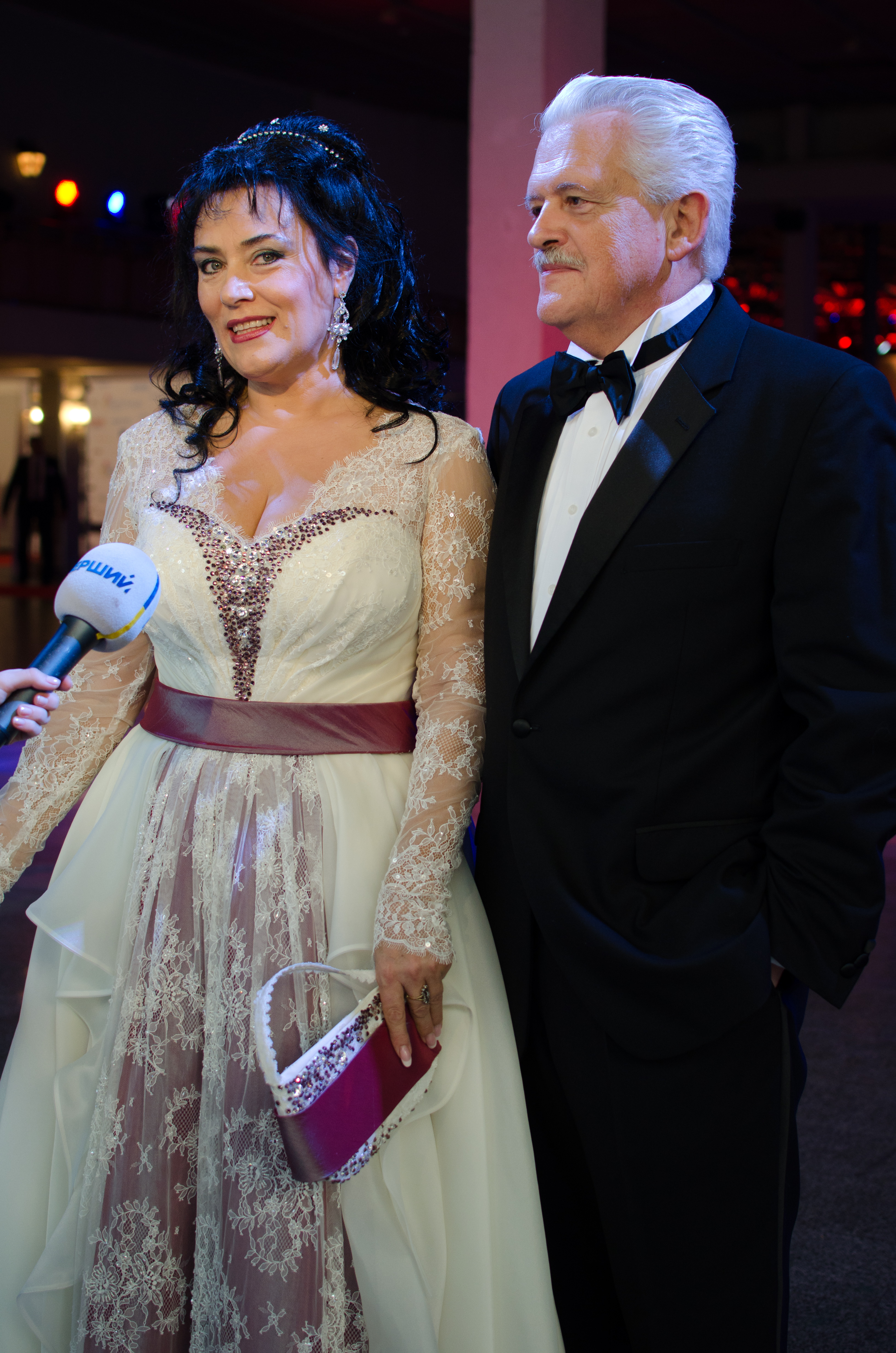 Koronatsiya Slova 2013 literature awards ceremony, Kiev, Ukraine